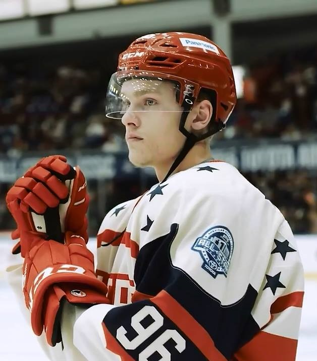 Rantanen was not only the youngest AHL All-Star this year, but also the second-youngest All-Star in the 80-year-old league’s modern history.